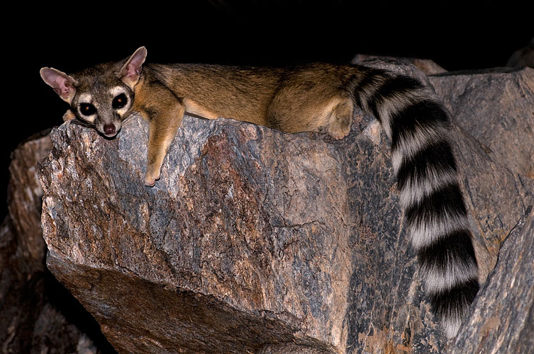 Ringtail in Phoenix, Arizona